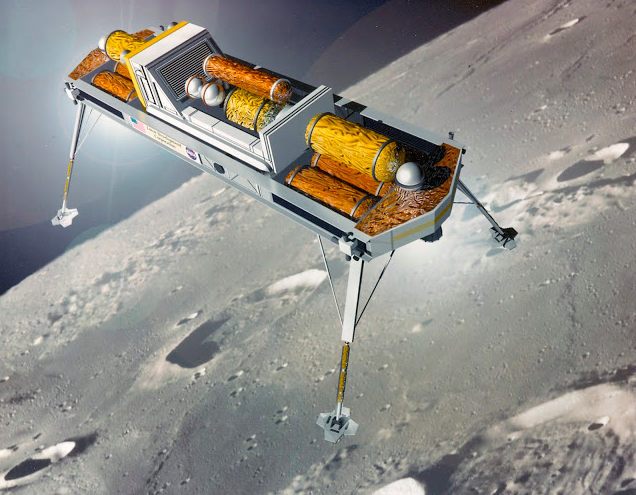 Following launch on an Energia rocket, translunar injection, and an Earth-moon voyage lasting up to about a week, a U.S.-built cargo lander bearing a self-deploying LUNOX regolith processing payload descends toward the lunar surface on a direct-descent trajectory. The lander is arranged horizontally, not vertically, to reduce the risk of tipping and, as important, to provide the astronauts who will follow it to the moon with easy access to its cargo. Image credit: NASA